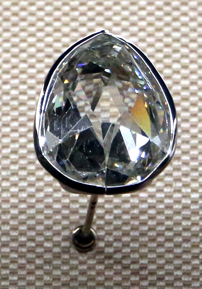 Crown jewels of France (gallery of Apollo)